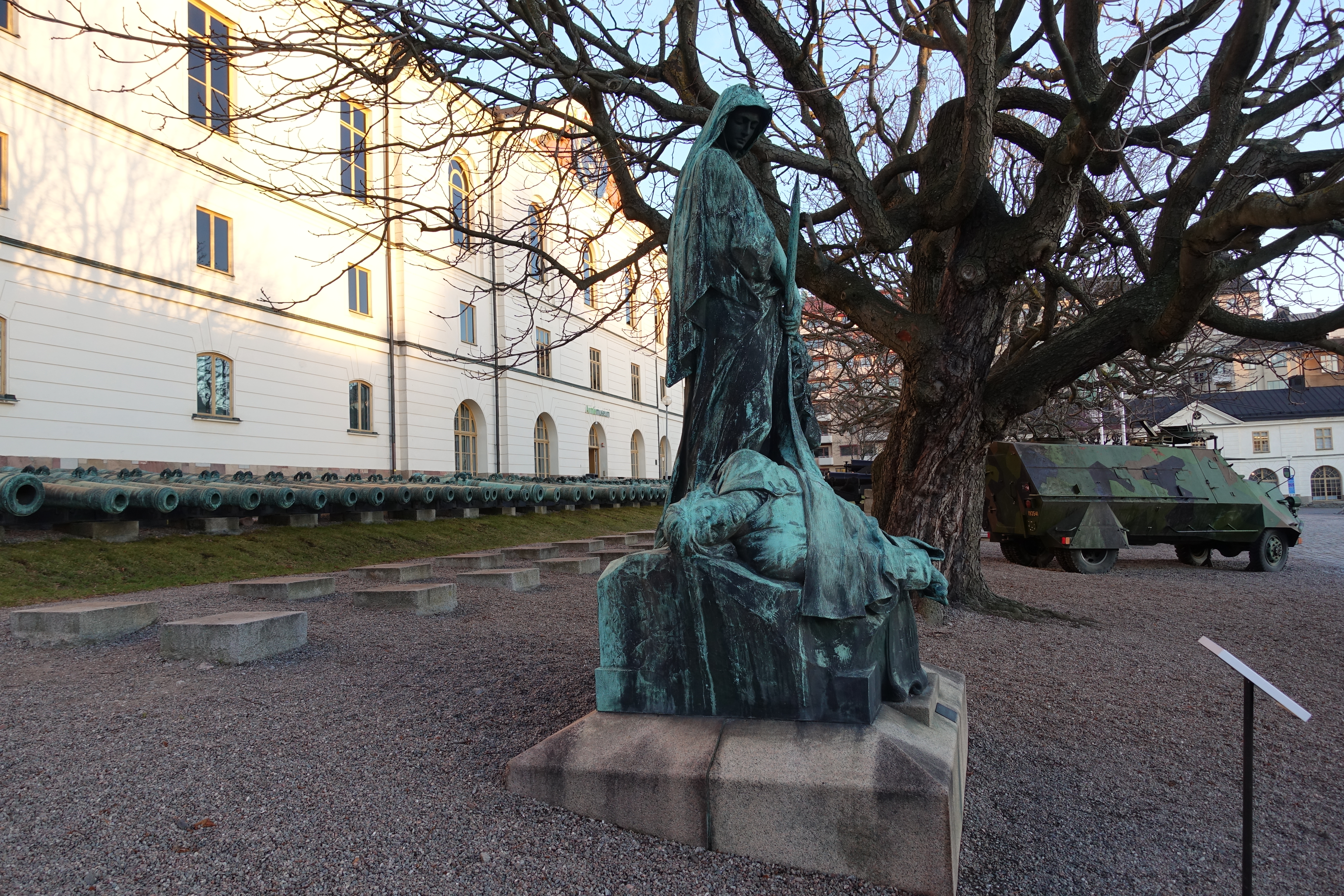 The Poltava Monument in Stockholm, Sweden